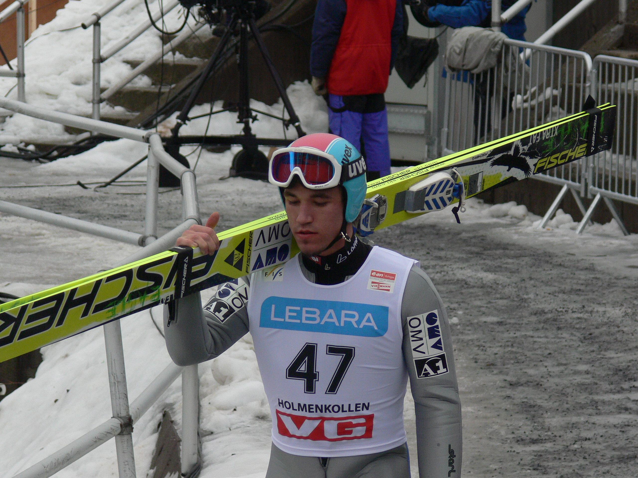 From the 2008 World Cup ski jumping event in Holmenkollen, Oslo.